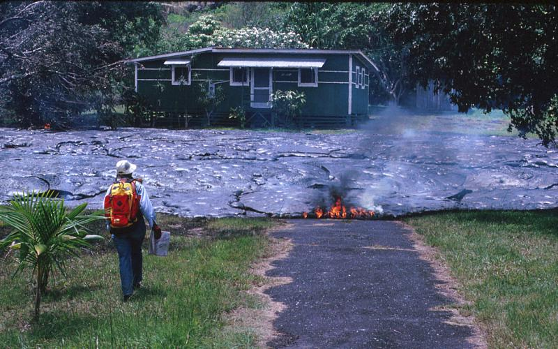 A house in Kalapana, Hawaii being destroyed by a pahoehoe flow.